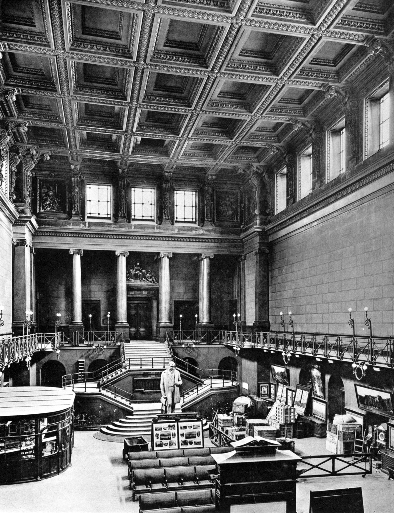 Photograph of Euston Station. The Great Hall, 1914.